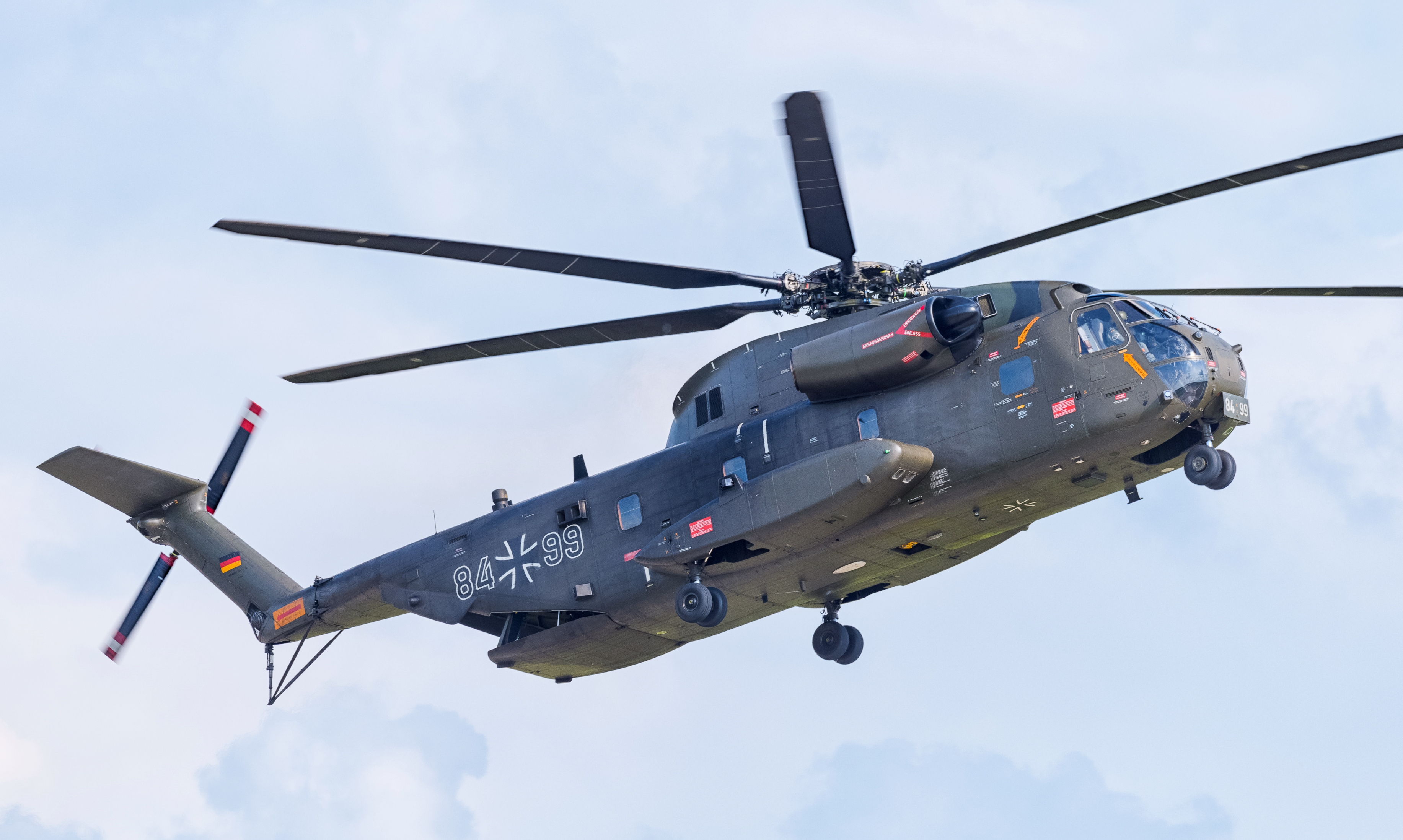 German Army Sikorsky CH-53G Super Stallion (reg. 84+99, sn V65-97) at ILA Berlin Air Show 2016.